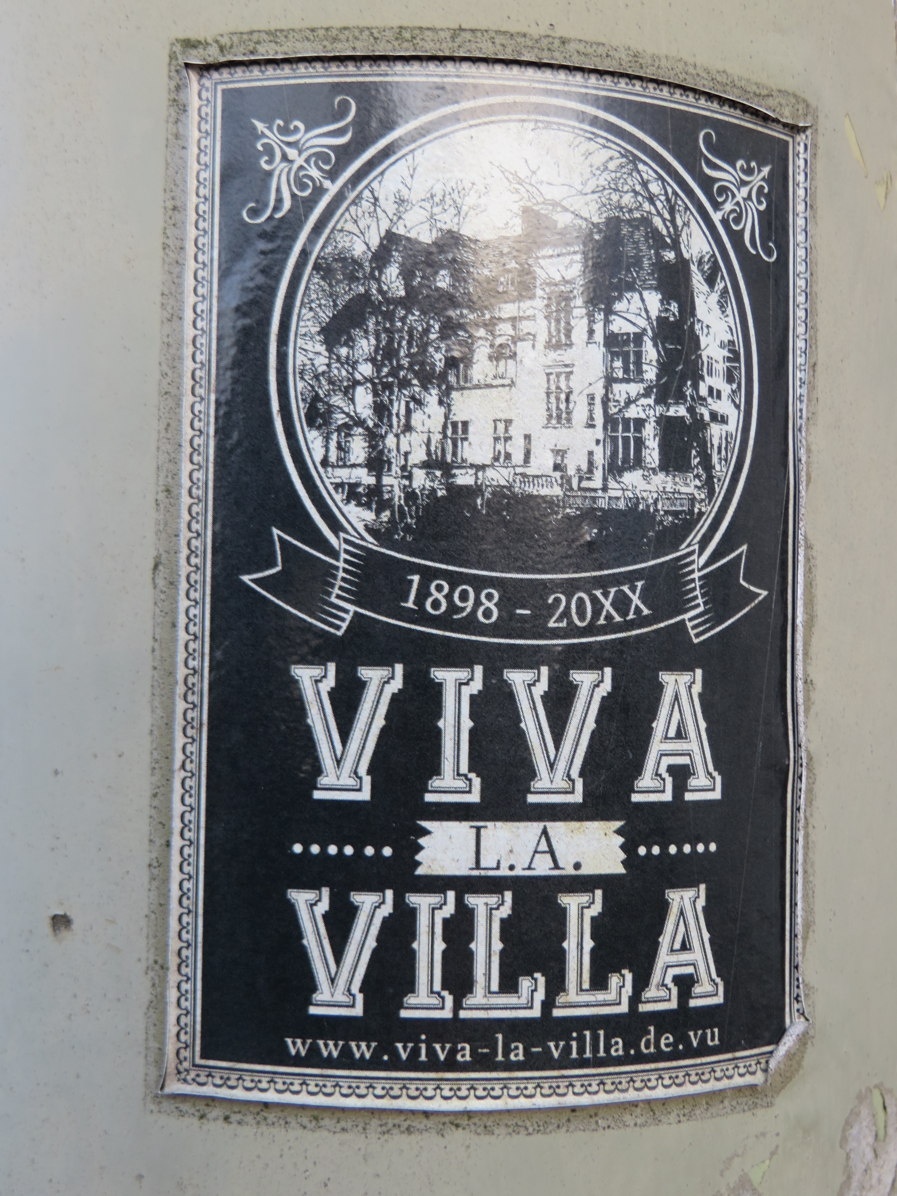 Sticker Viva L.A. Villa at light pole 30 in Röhrchenstraße in Witten, Germany